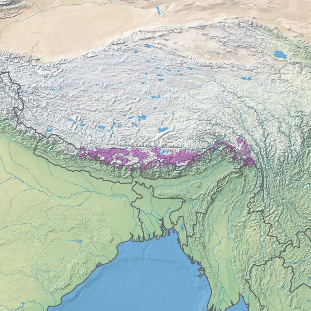 WWF Ecoregion PA1003 - Eastern Himalayan alpine shrub and meadows